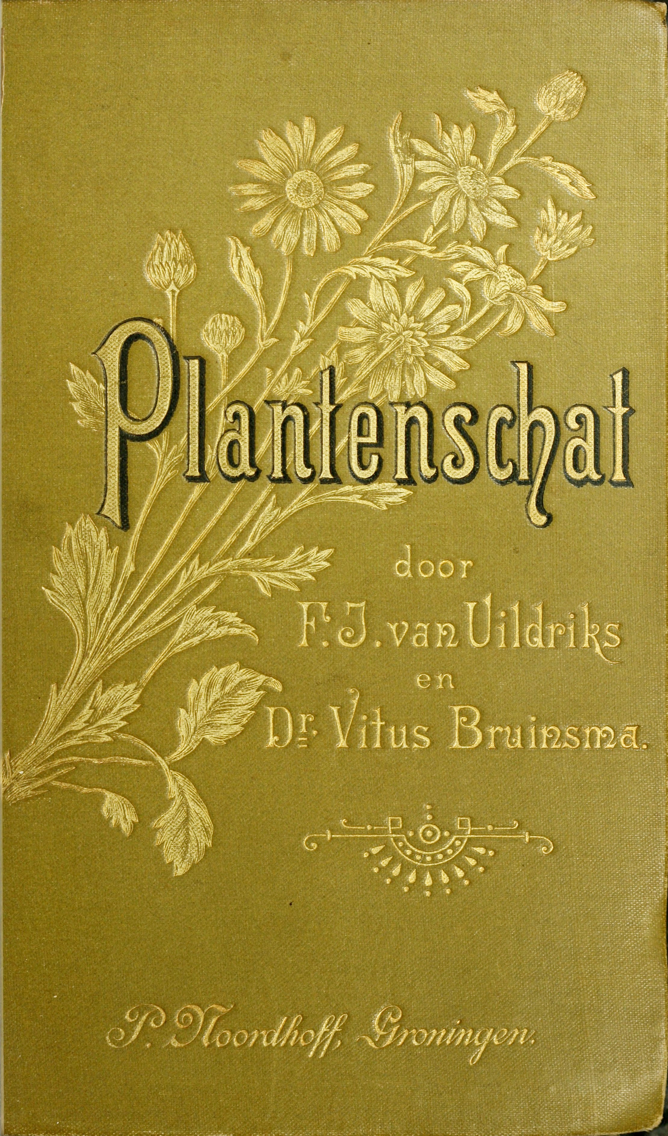 Cover of Plantenschat 1898.